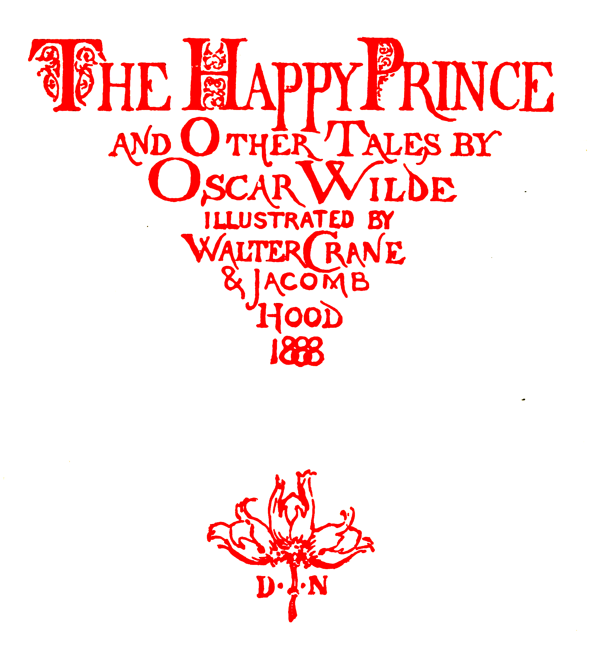 Illustration in Wilde's The Happy Prince and Other Tales. London: Nutt. 1st ed. Conversion: jp2 to png; black and white point levels.